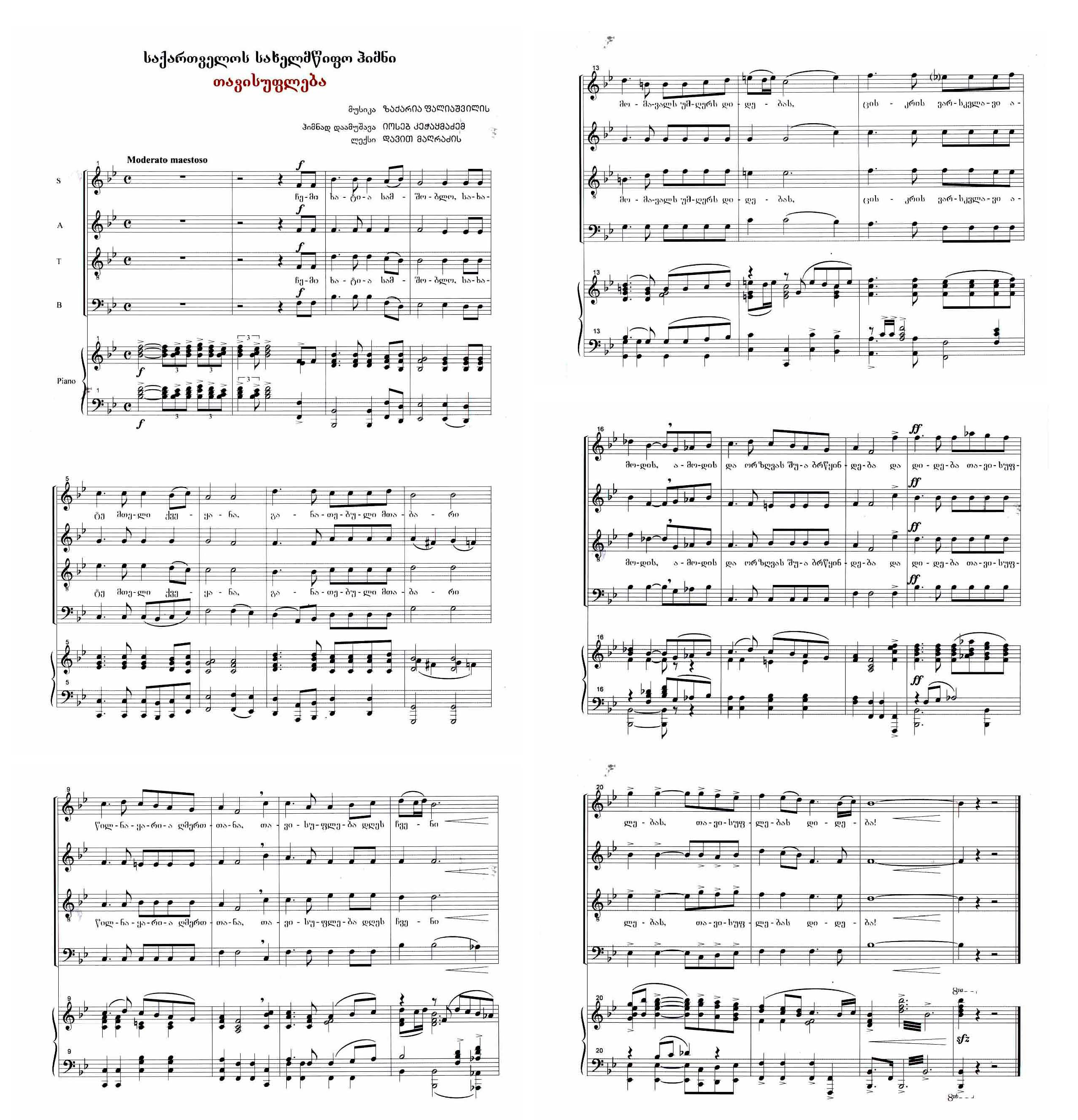 Sheet music to the Georgian anthem Tavisupleba, (Georgian version).